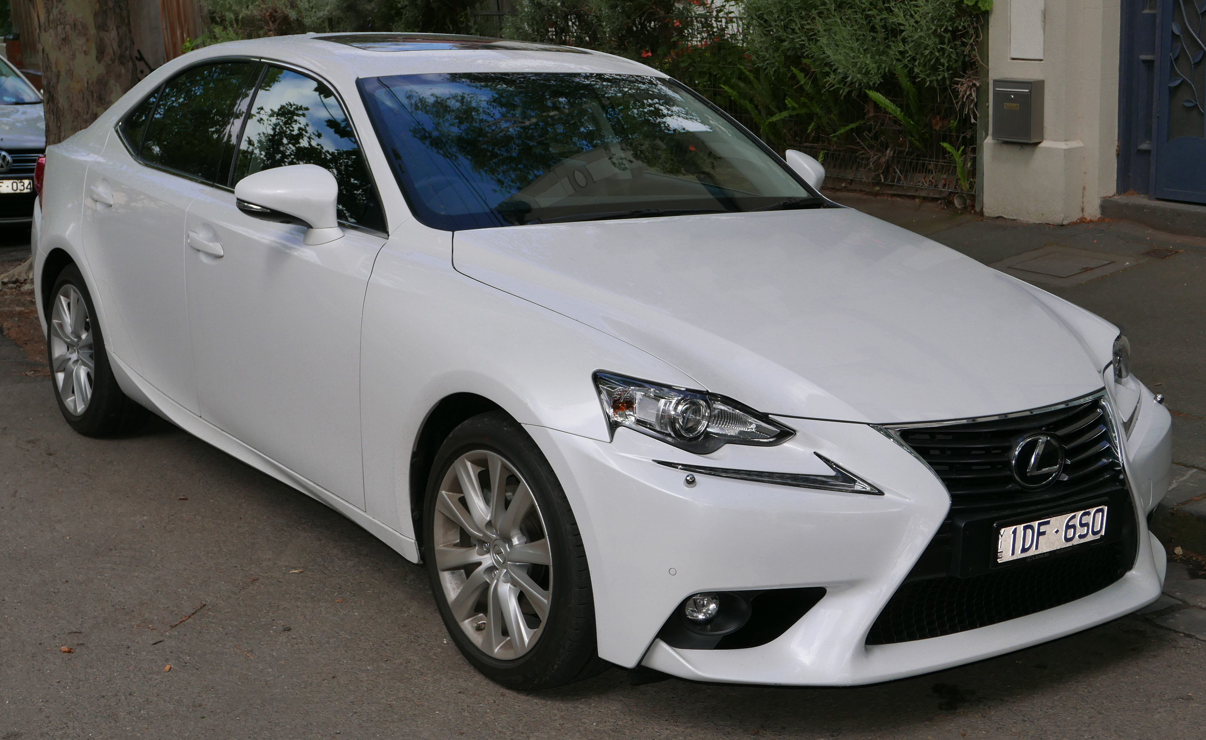 2015 Lexus IS 250 (GSE30R) Luxury sedan. Photographed in Fitzroy North, Victoria, Australia. Vehicle registration enquiry results Jurisdiction Victoria Registration 1DF6SO Chassis code JTHBF5D2205080709 Engine code 4GR1063203 Compliance date 2015-07 Year of manufacture 2015